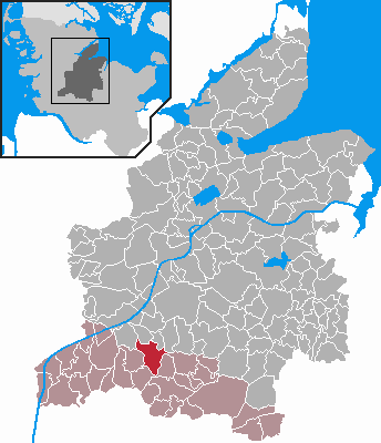 Locator maps of municipalities in Schleswig-Holstein - District Rendsburg-Eckernförde